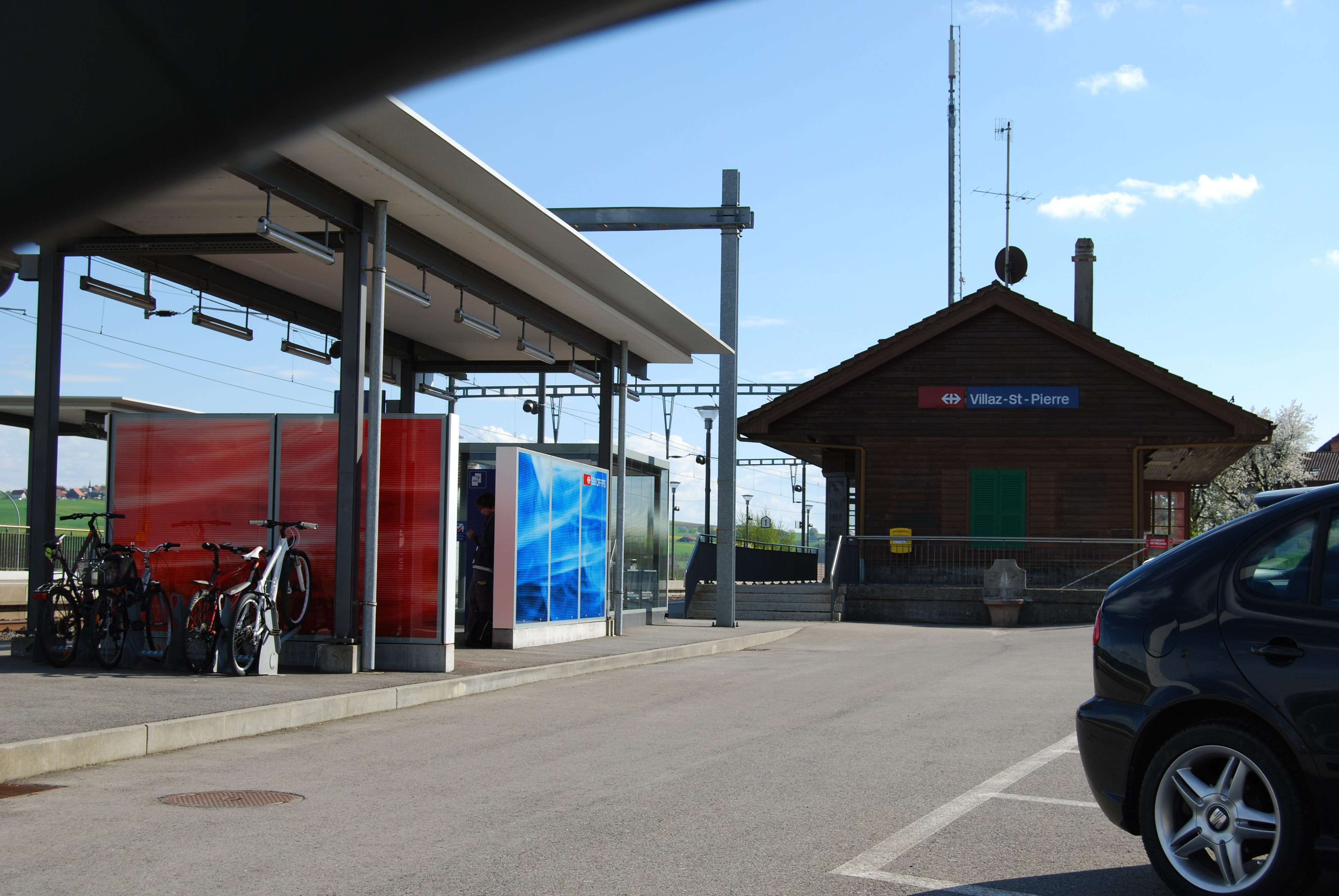 Trainstation of Villaz-Saint-Pierre, Villaz-Saint-Pierre, canton of Fribourg, Switzerland